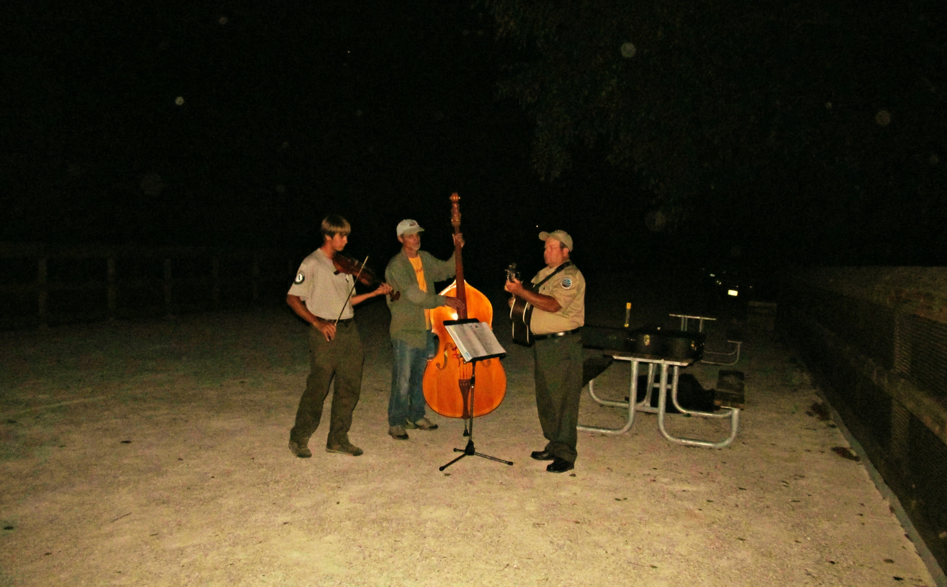 High Bridge Trail State Park jam session under the full moon at High Bridge. jlw used in blog